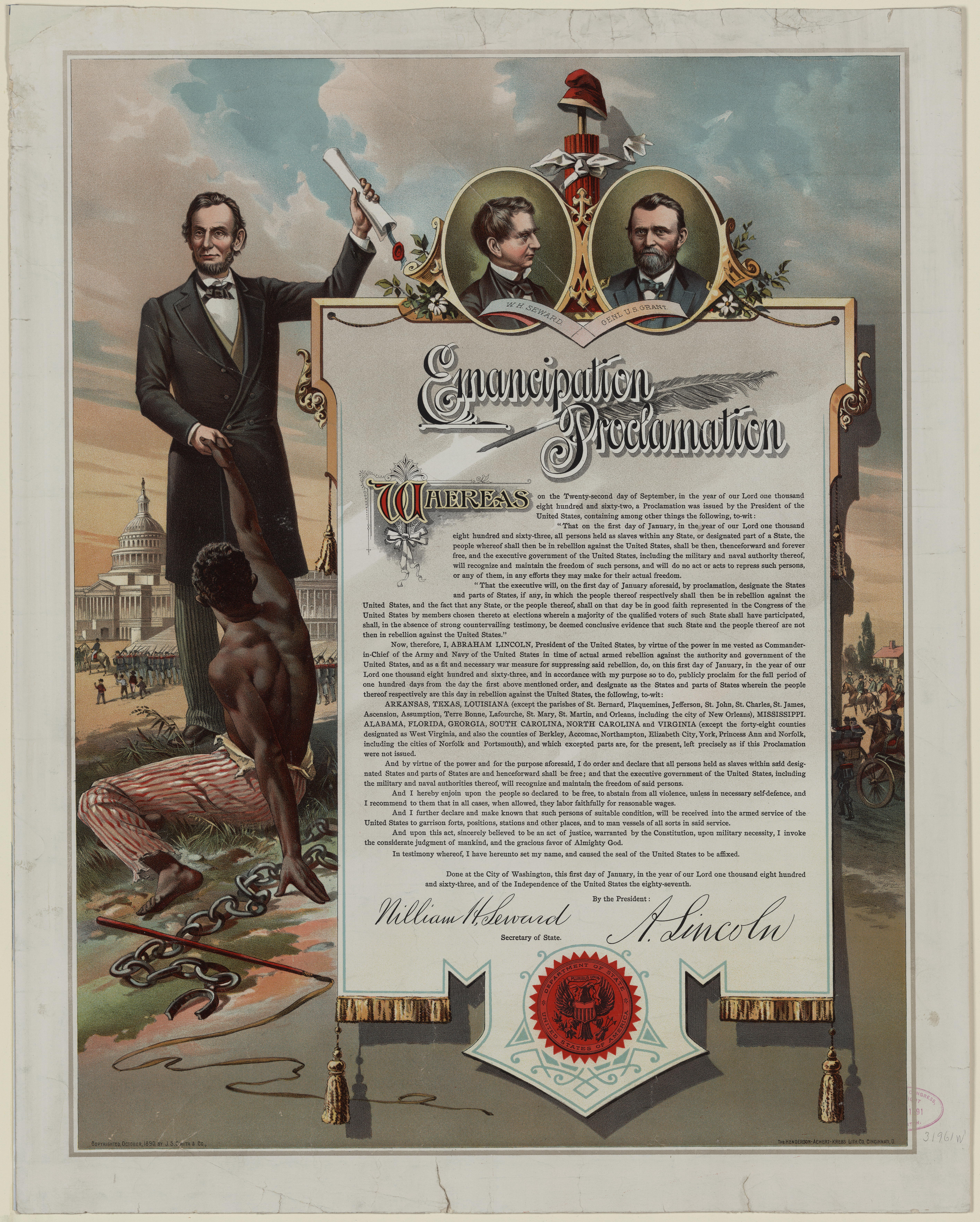 J. S. Smith & Co. copy of the Emancipation Proclamation.